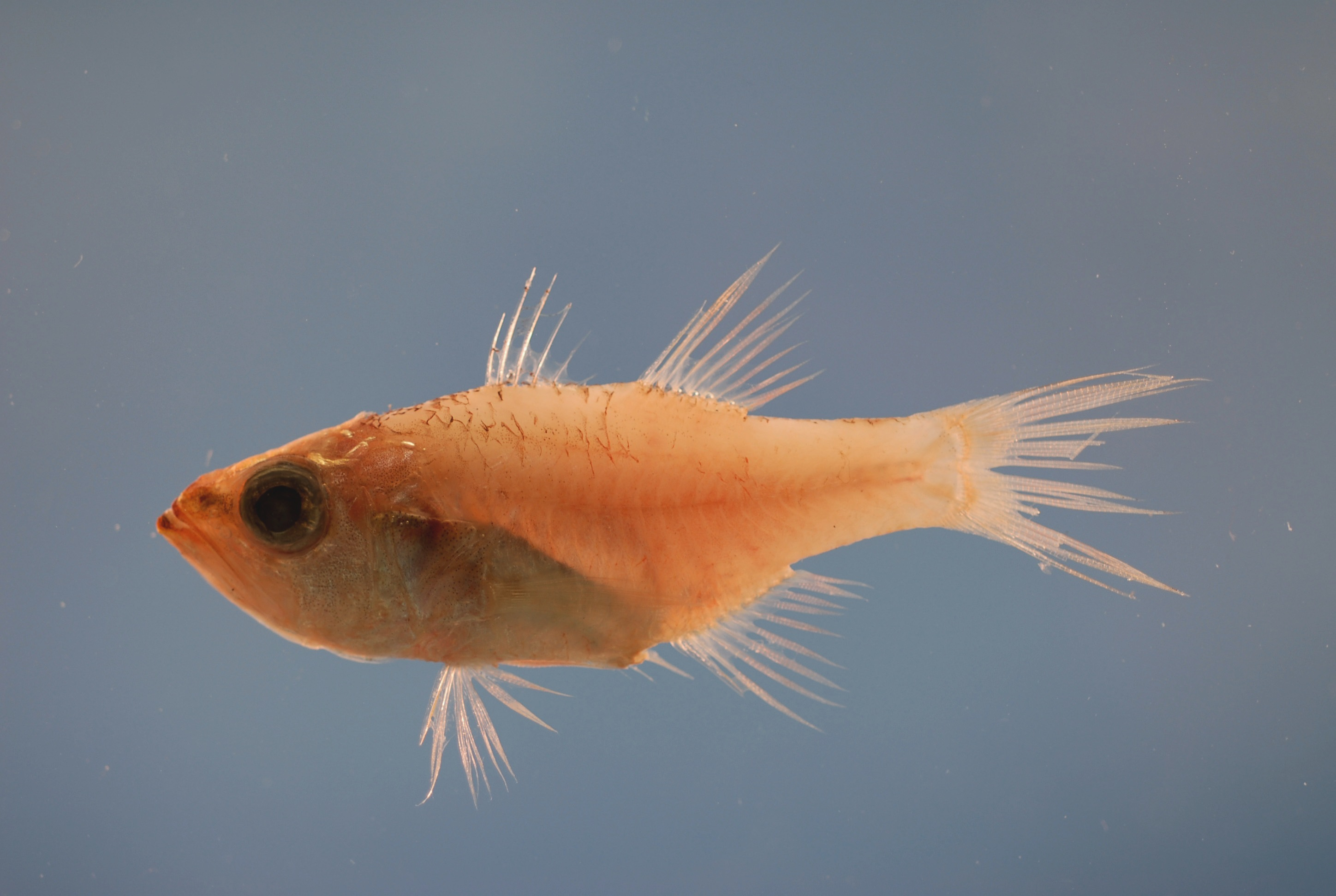 Bigtooth cardinalfish ( Apogon affinis ). Gulf of Mexico.